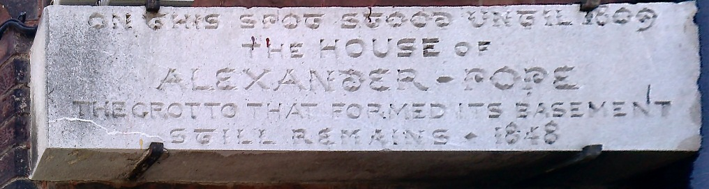 Stone on wall of Radnor House, Cross Deep, Twickenham, recording Alexander Pope's grotto, a Grade 2* listed monument, which survives under the main road, between the site of Pope's house and his garden.